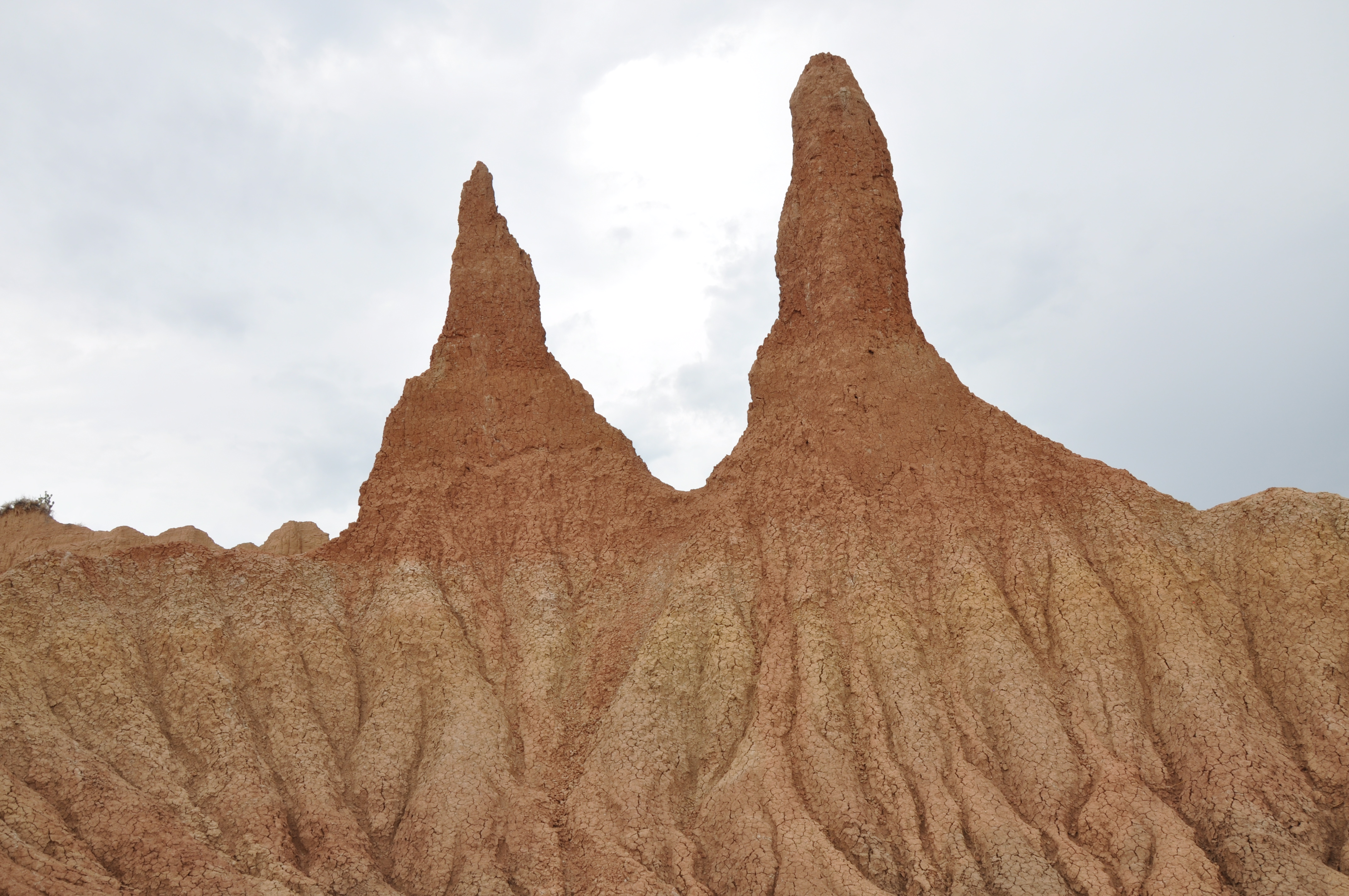 The Tatacoa Desert (English for Desierto de la Tatacoa) is a desert located in the Colombian Department of Huila, some 38 km from the city of Neiva. There are fossil remains in the area making it a tourist destination also for astronomical observation. The Tatacoa covers a total area of 300 km² mostly covering the municipality of Villavieja. The Tatacoa is home to several endemic species of spiders, snakes, scorpions, lizzards, eagles among others.